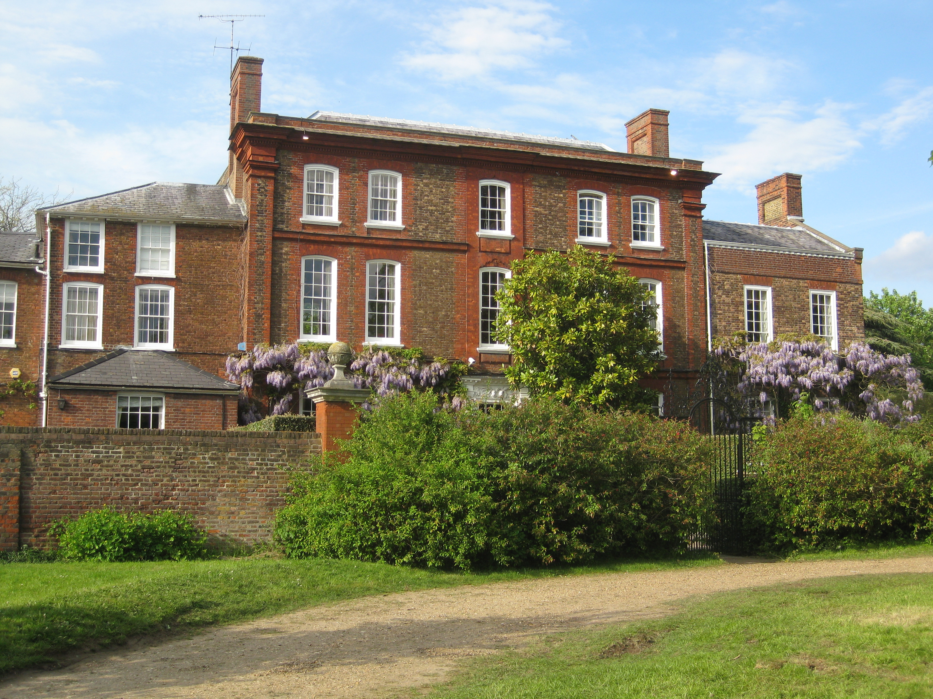 Ormeley Lodge, Ham, Greater London, UK